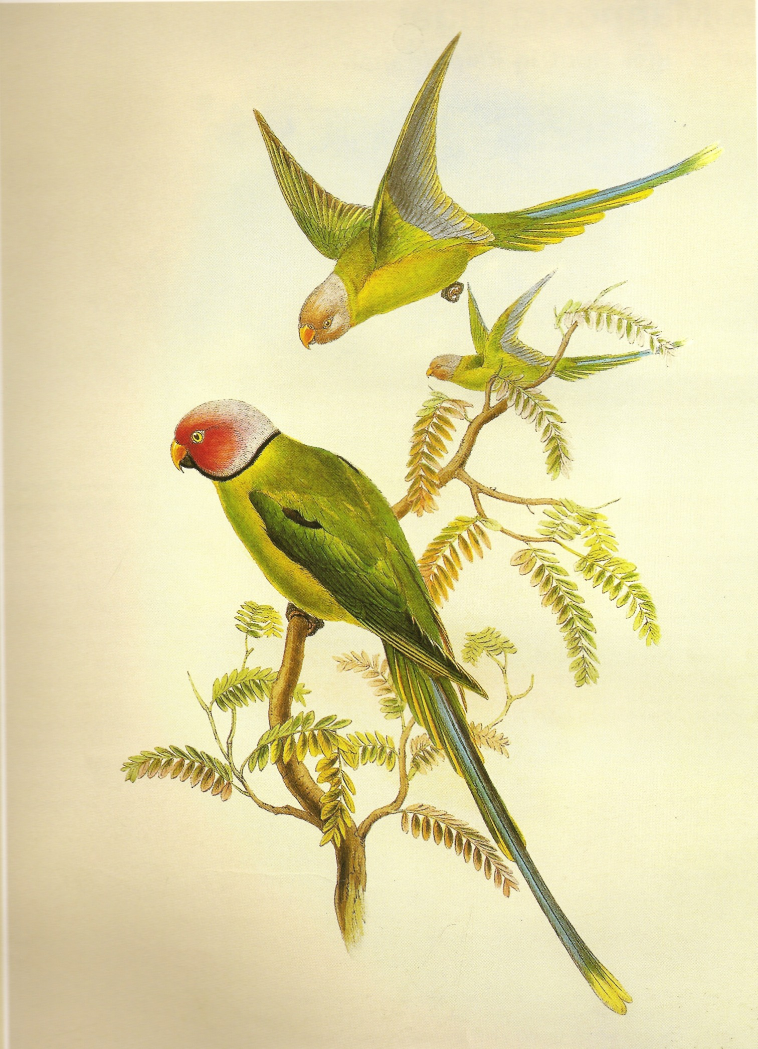 Blossom-headed Parakeet Psittacula roseata Biswas